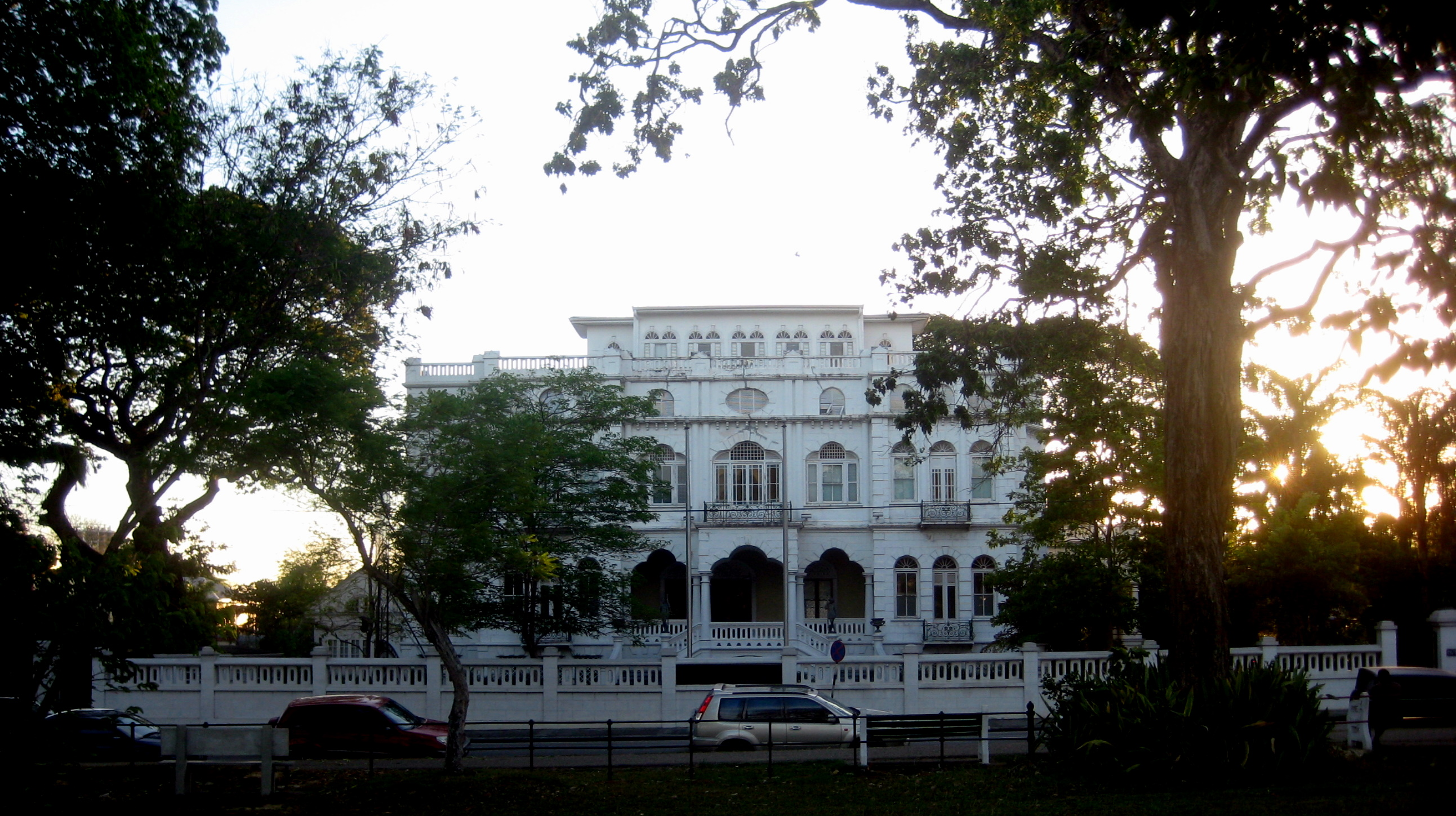 White Hall, Official office of the Prime Minister